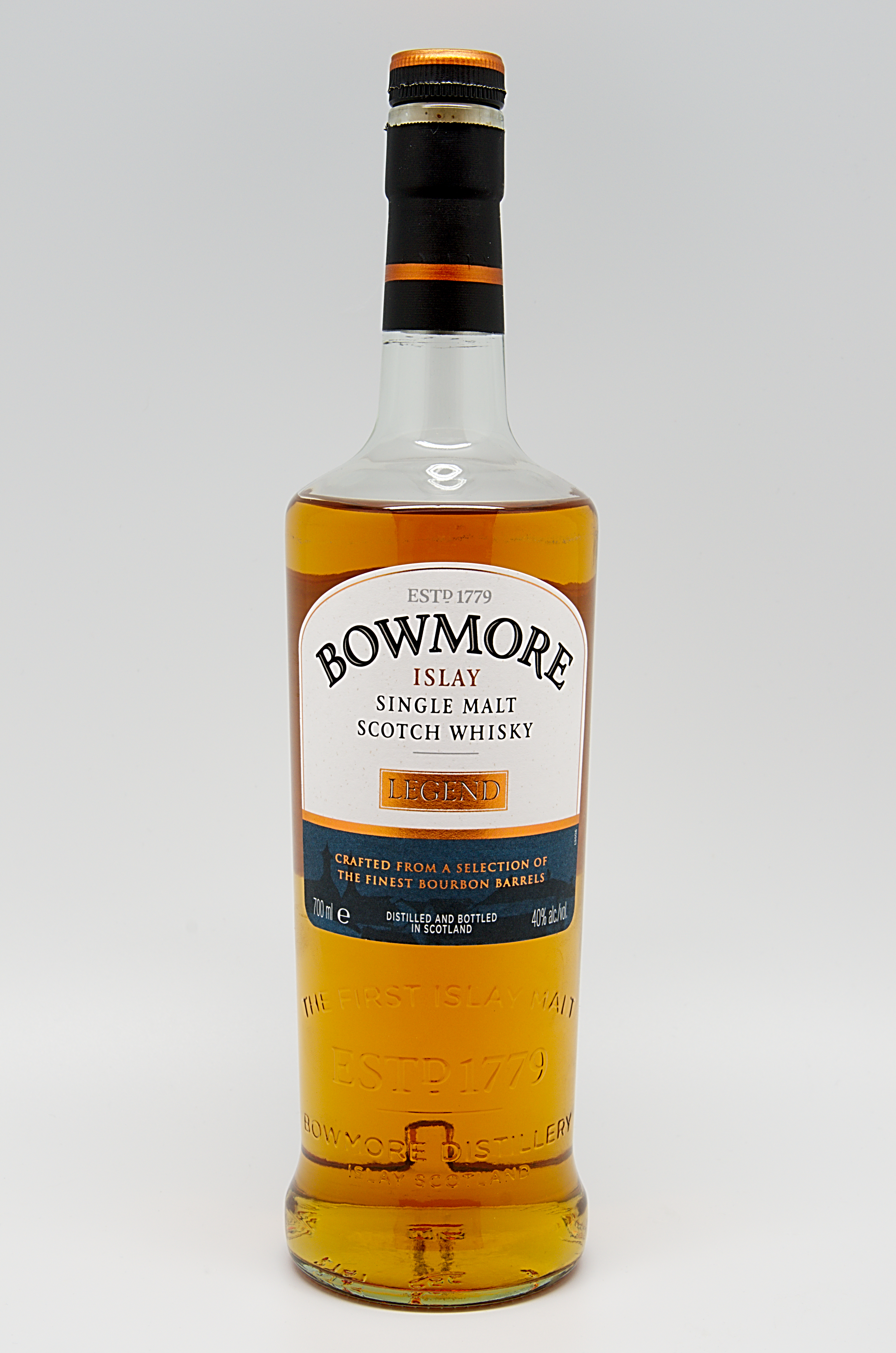 Bowmore bottle